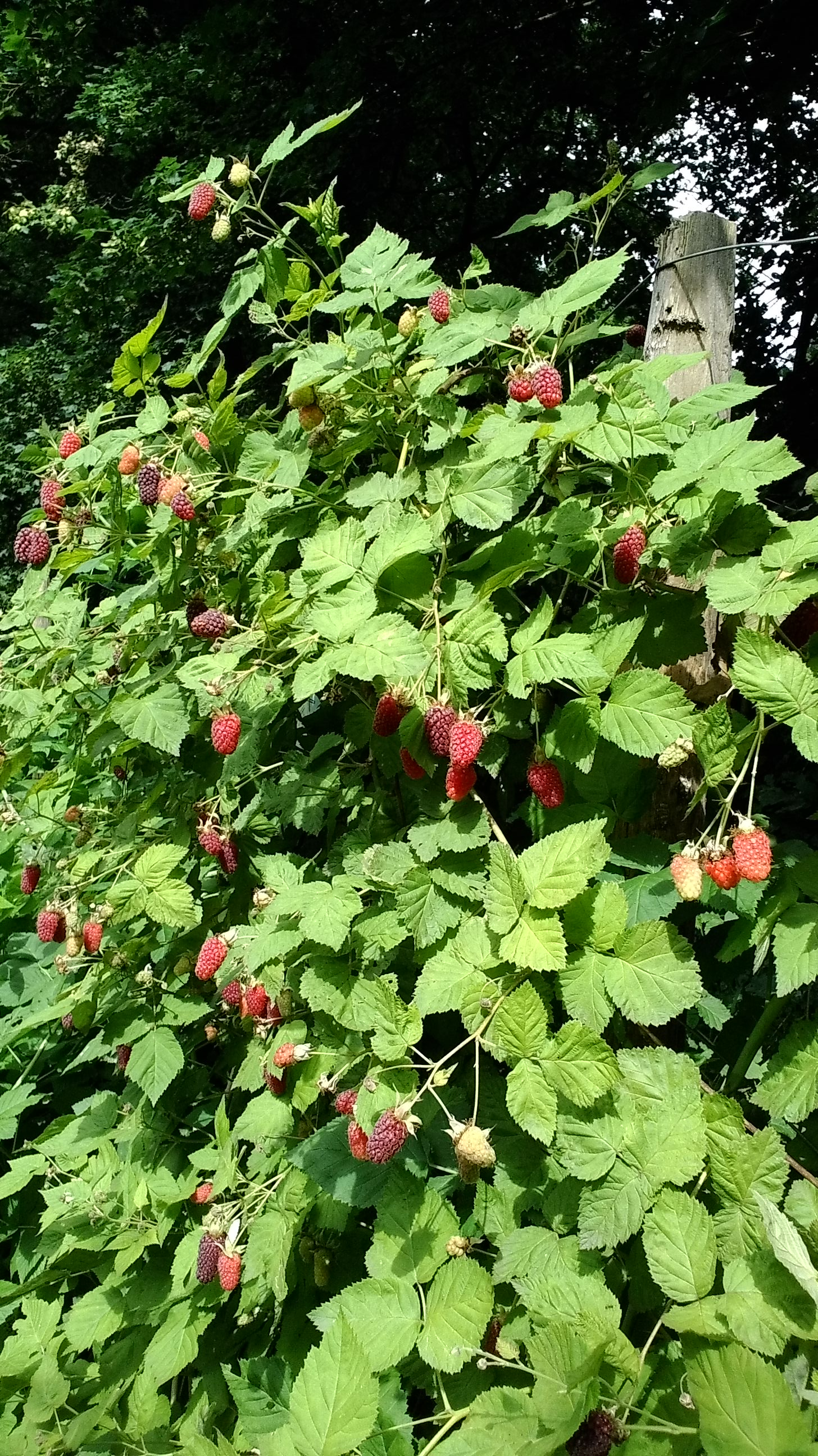 Fruiting Thornless Loganberry